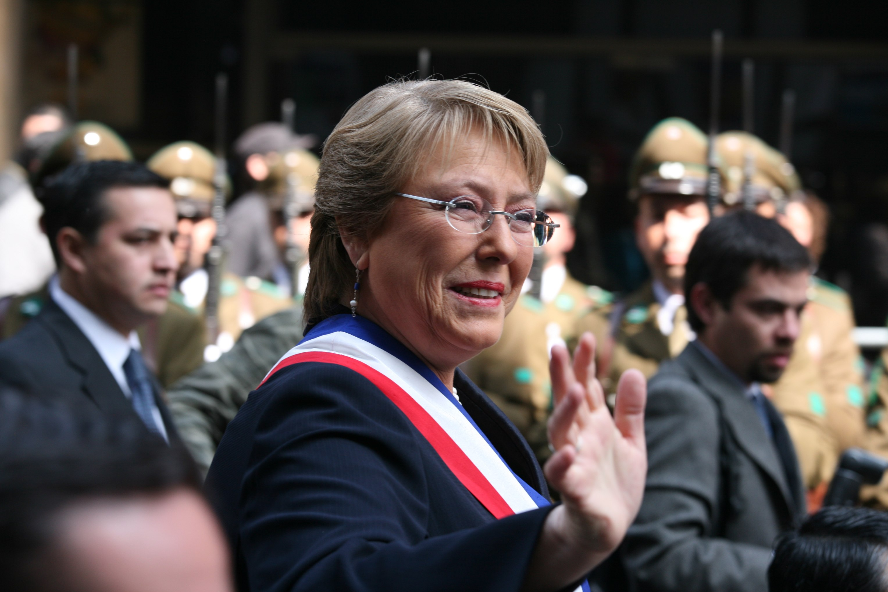 The President of Chile, Verónica Michelle Bachelet Jeria. September 18th, 2009: Chile's Independence Day.